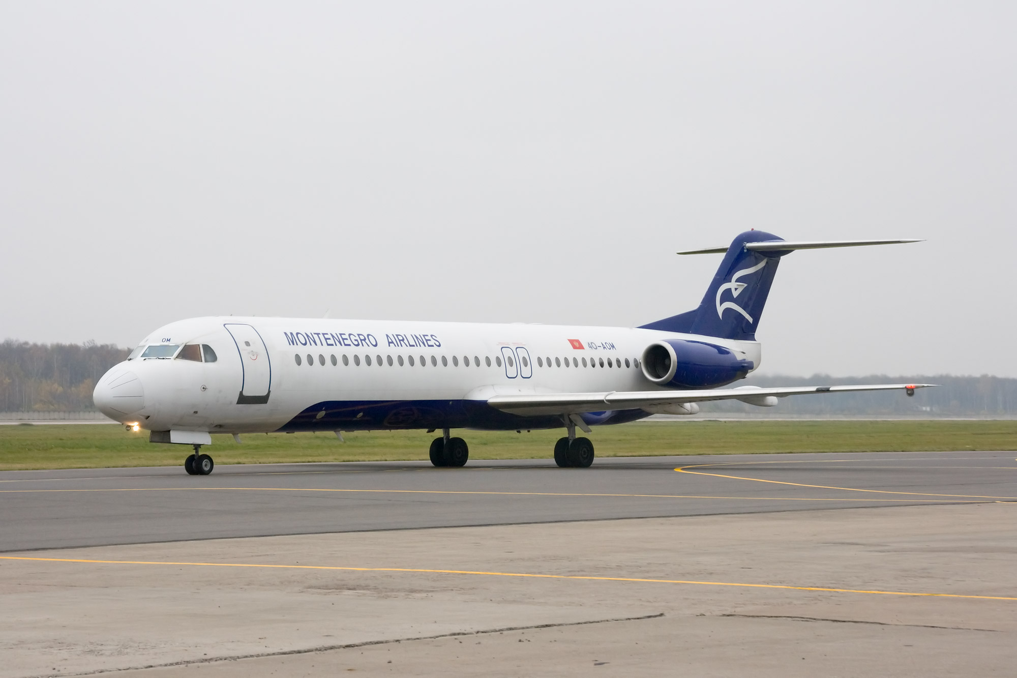 Fokker-100 F-28-0100